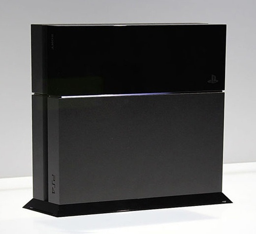 The main console unit of the PlayStation 4, at display at 2013 E3.